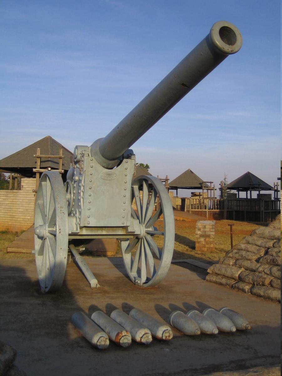 Reproduction of a so called Long Tom, a long canon used by the Burs during the Anglo-Bur wars. Photo taken at the Long Tom Pass Northern Drakensberg, South Africa